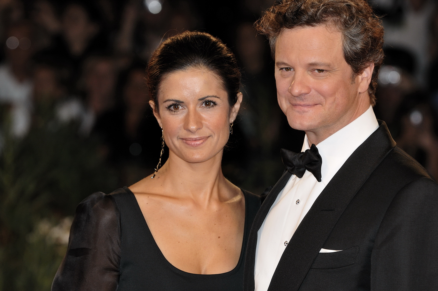 Colin Firth and Livia Giuggioli at 2009 Venice Film Festival